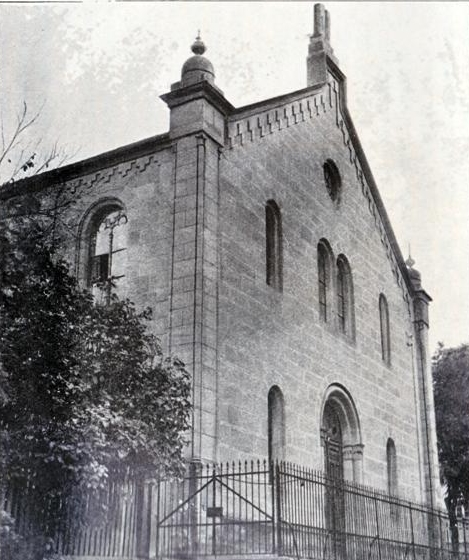 Synagogue of Wolfhagen (Hesse) - 1859 - 1938 (Burned by the nazis during Kristalnacht